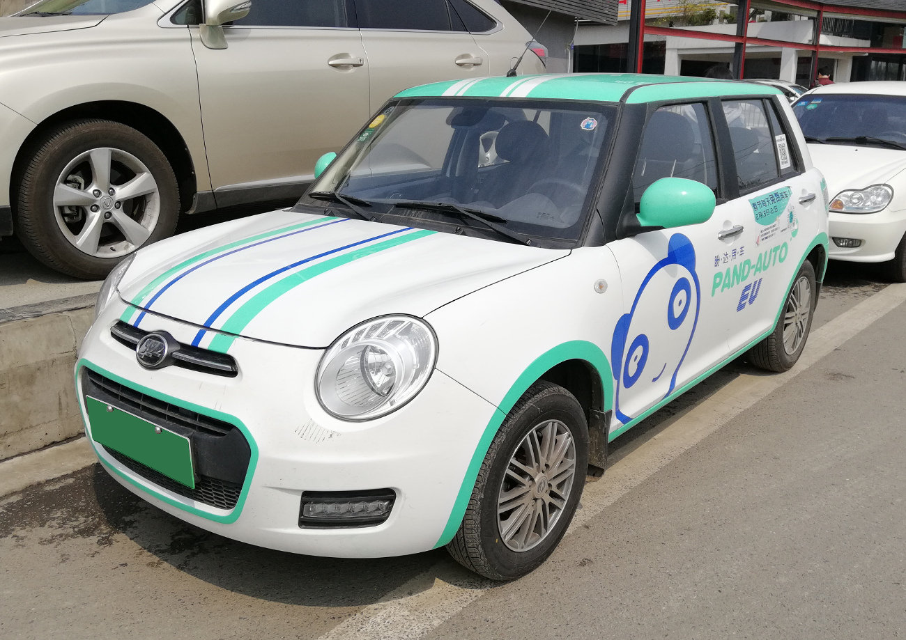 Lifan 330 EV photographed in Chengdu, Sichuan province, China.